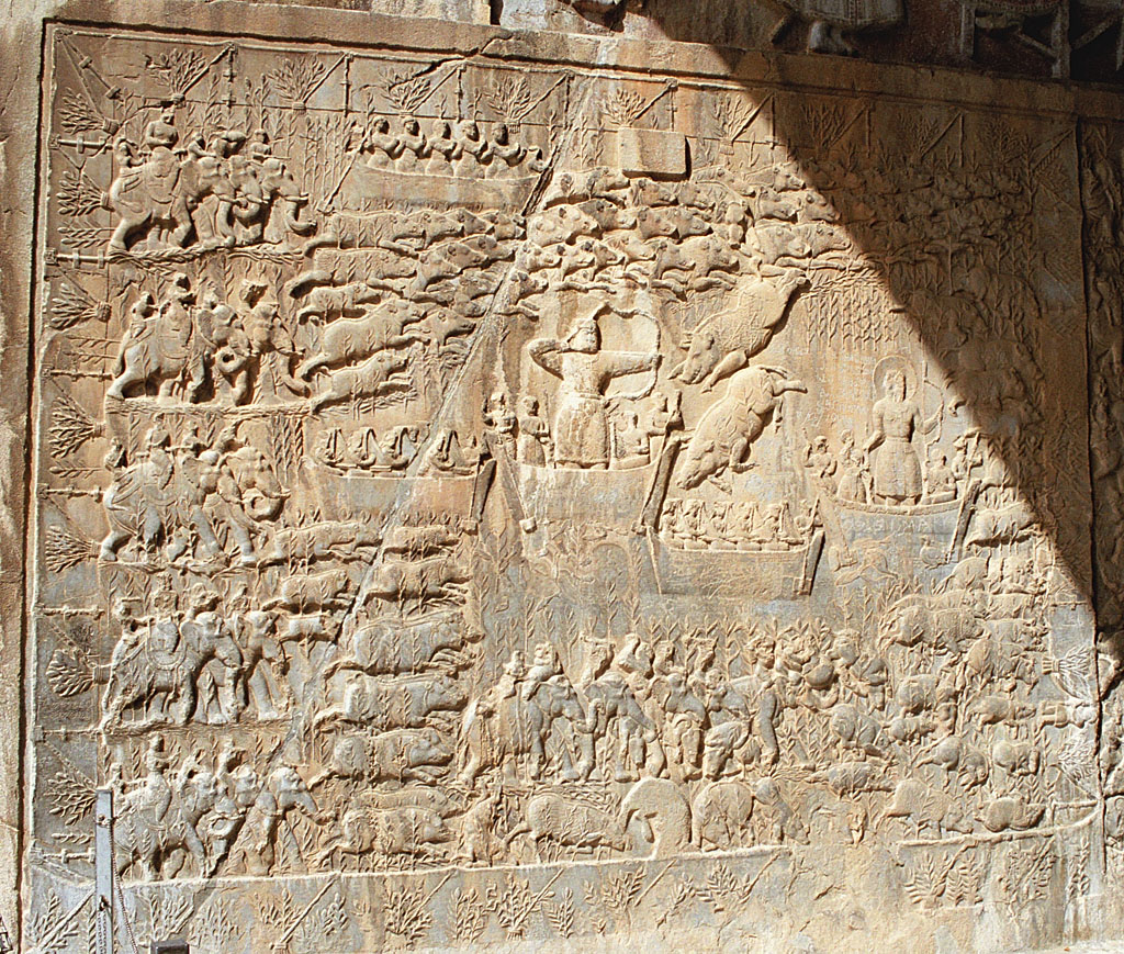 Taq-e Bostan : low-relief depictinf a boar hunt